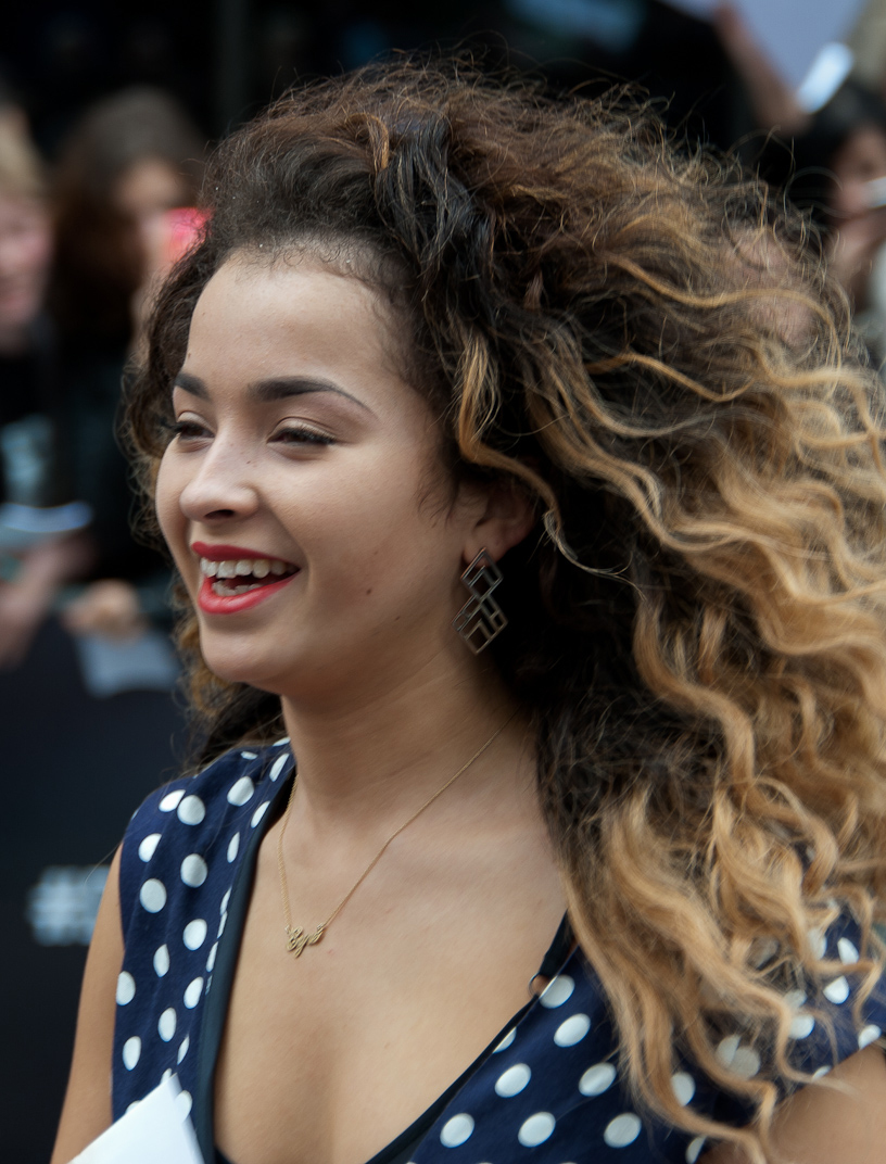 Ella Eyre at the Westwood premiere of Divergent, 18 March 2014